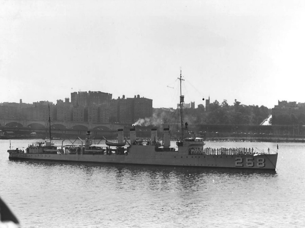 The U.S. Navy destroyer USS Aulick (DD-258) anchored off New York City (USA), circa 1939-1940.